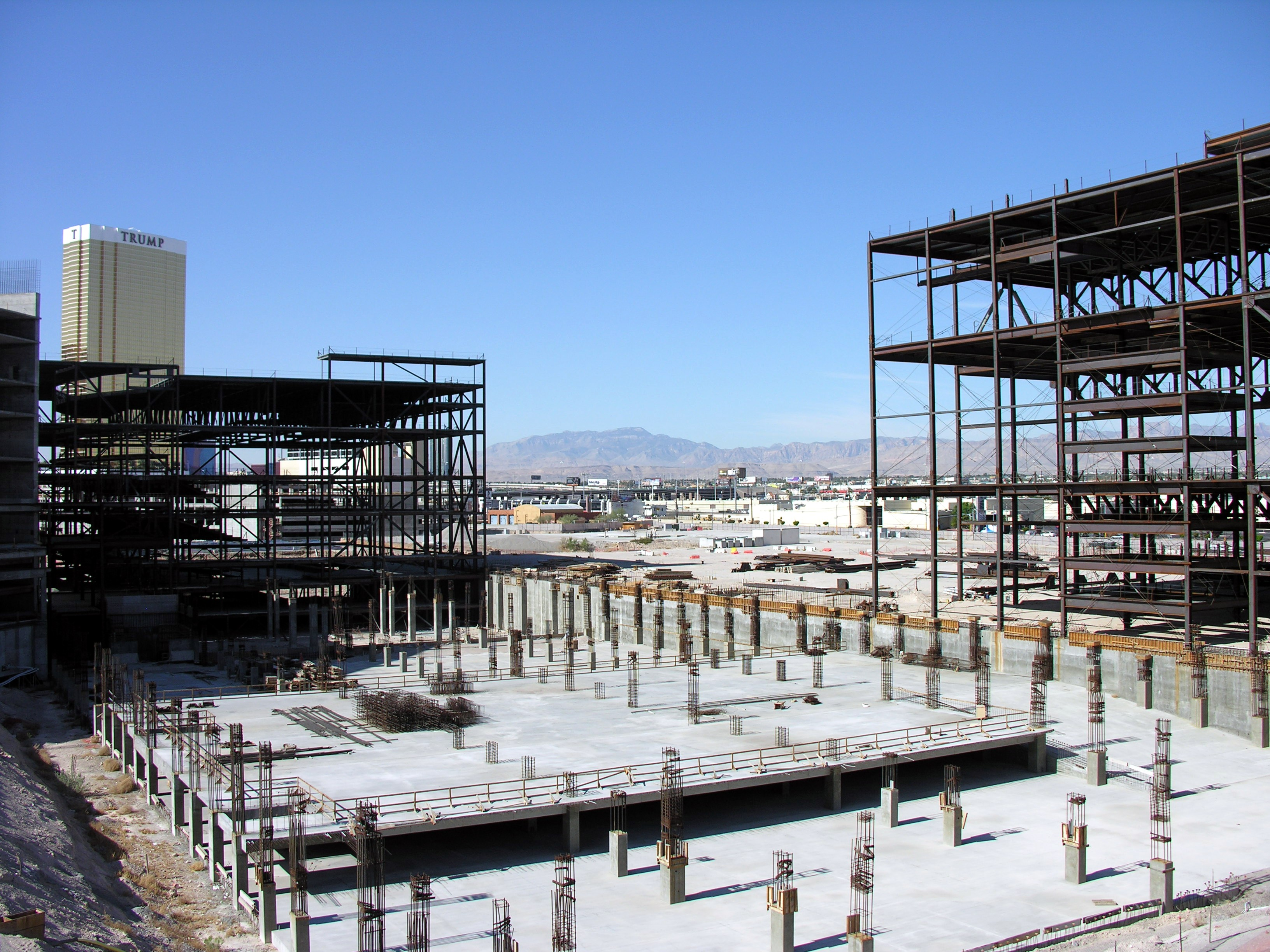 Unfinished buildings at the Echelon Place construction site on the Las Vegas Strip.